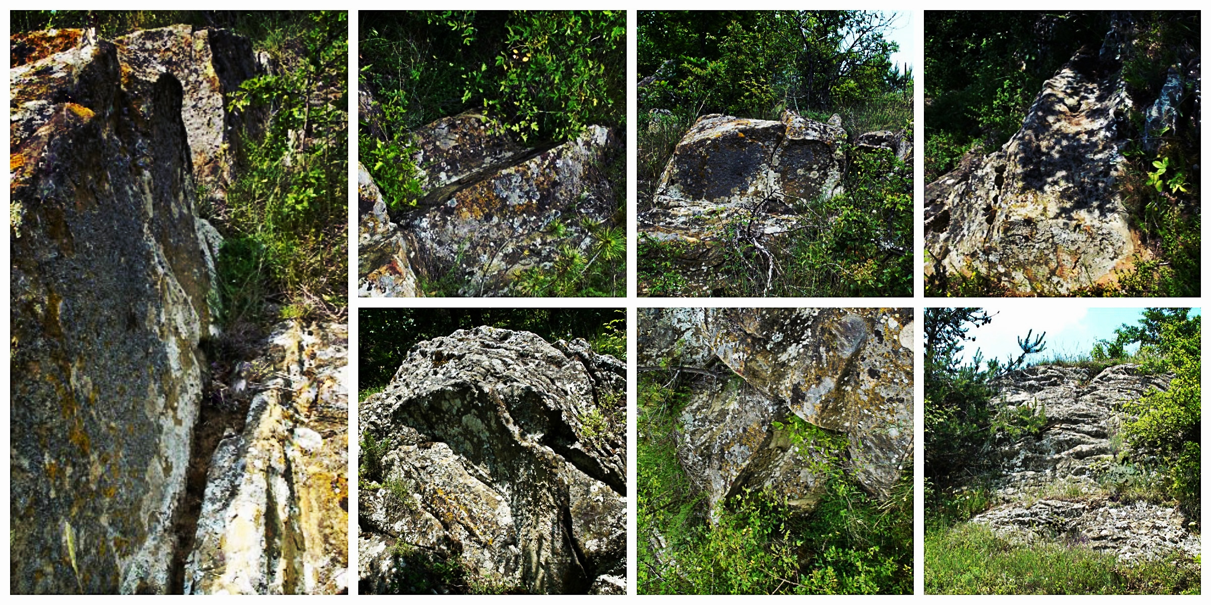 Prokopie Cult Prehistoric Temple Zavala PK BG